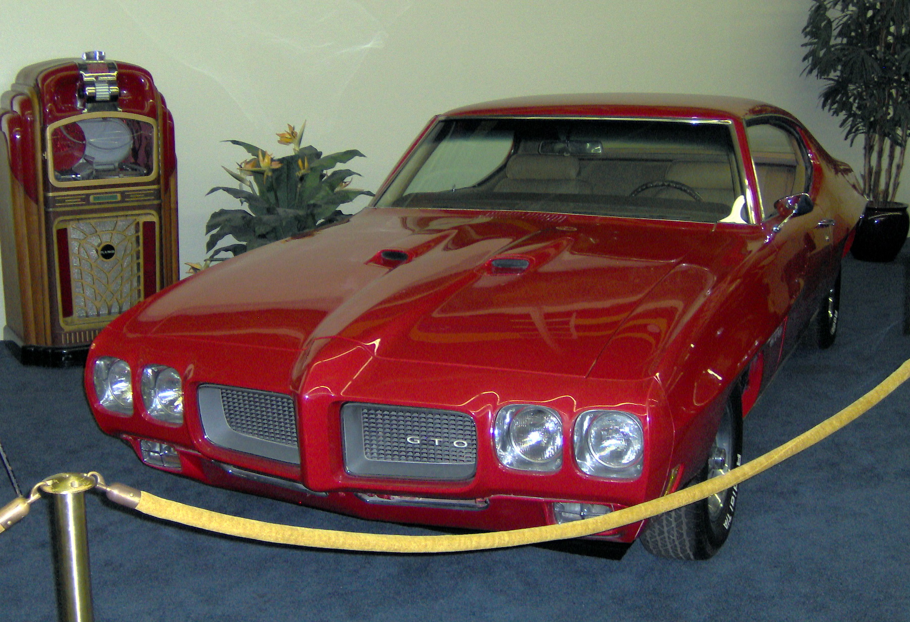 1970 Pontiac GTO Sport Coupe